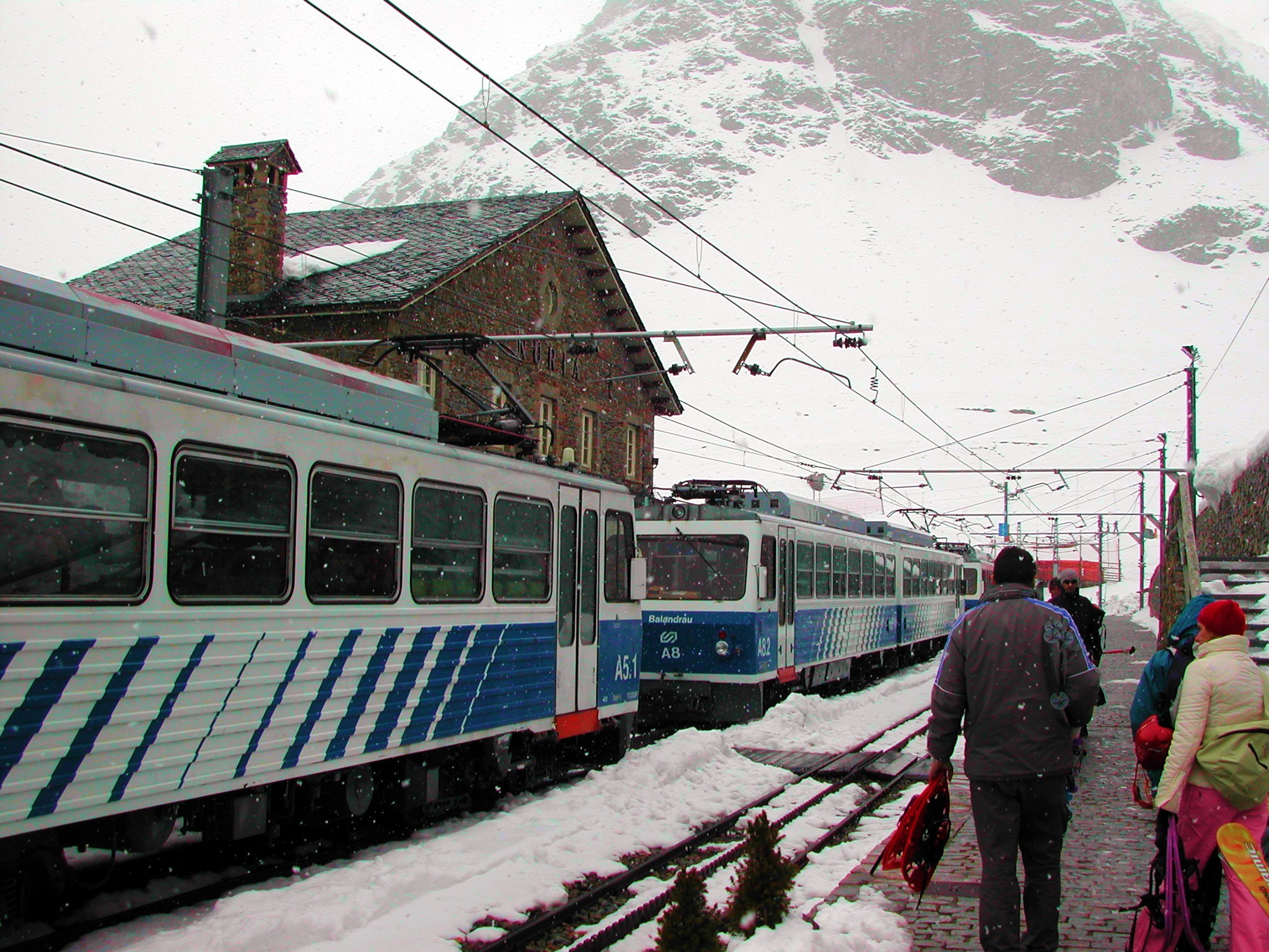 Vall de Núria, Ripollés, Catalonia - Núria station building seen from the platform.